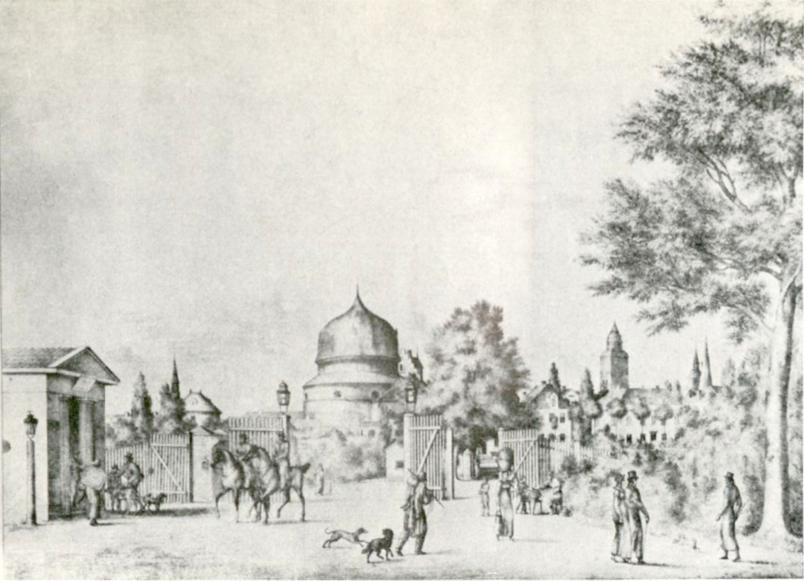 Picture of the Passage of the Ostertorsteinweg through the Wallanlagen in Bremen